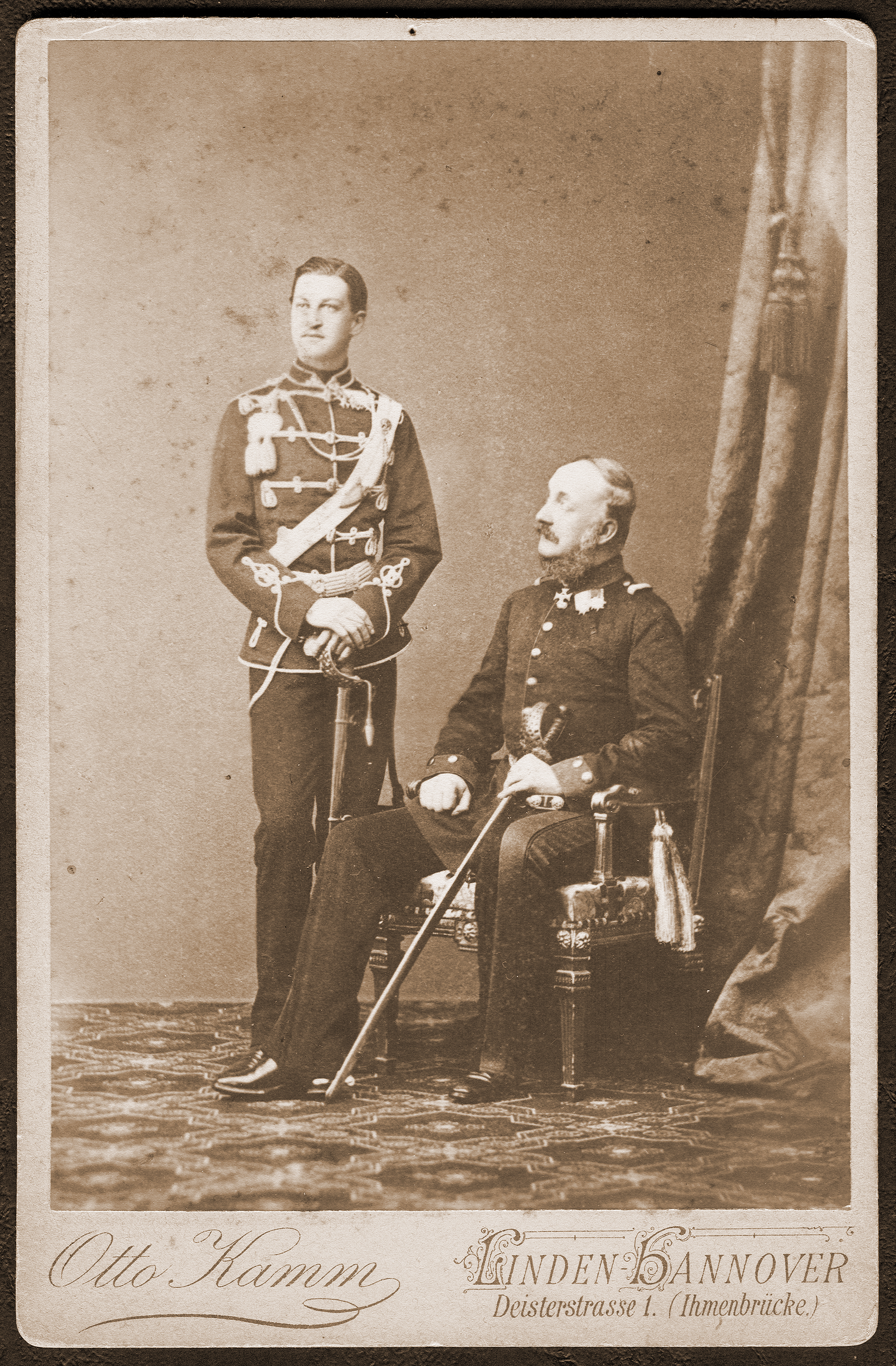 The young Prince Ernest Augustus, 3rd Duke of Cumberland and Teviotdale, and his father King George V of Hanover, both with sabre in the studio of the photographer Otto Kamm ...